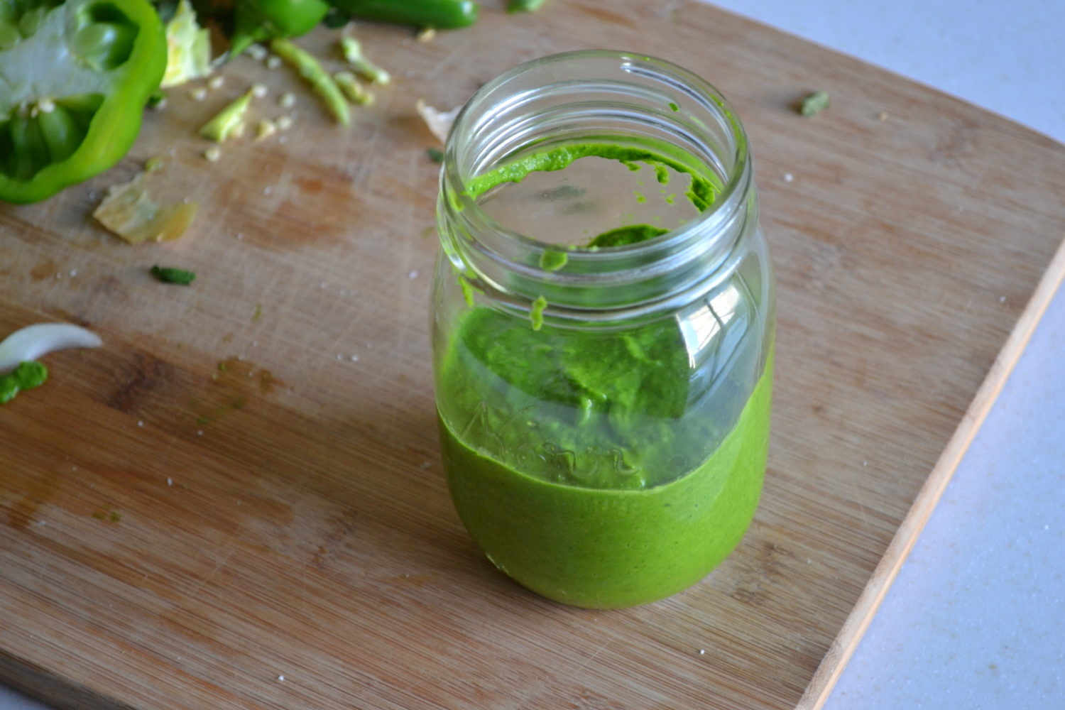 Fresh guasacaca in a mason jar